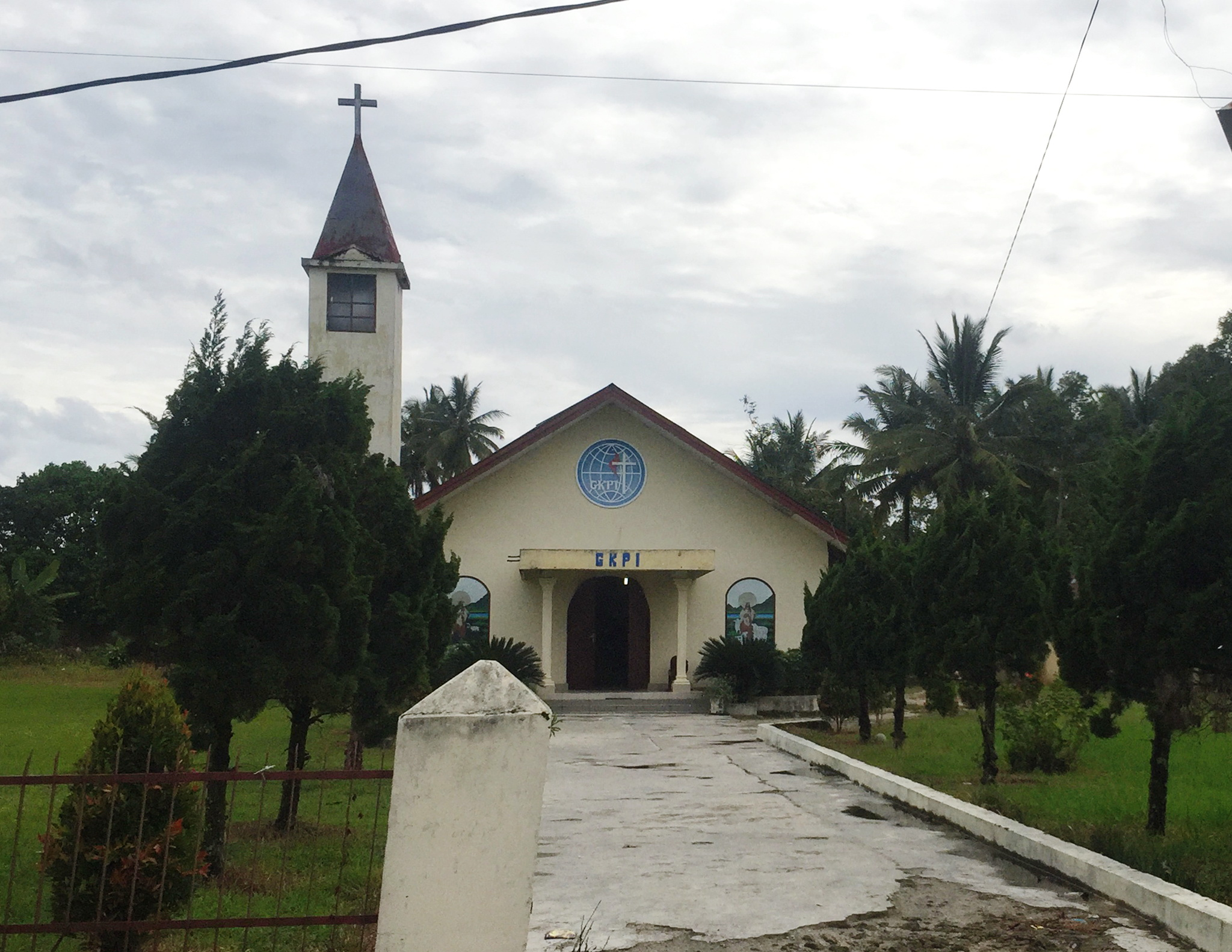 GKPI GKPI Balata, Res. Balata, Church in Tiga Balata, Jorlang Hataran, Simalungun